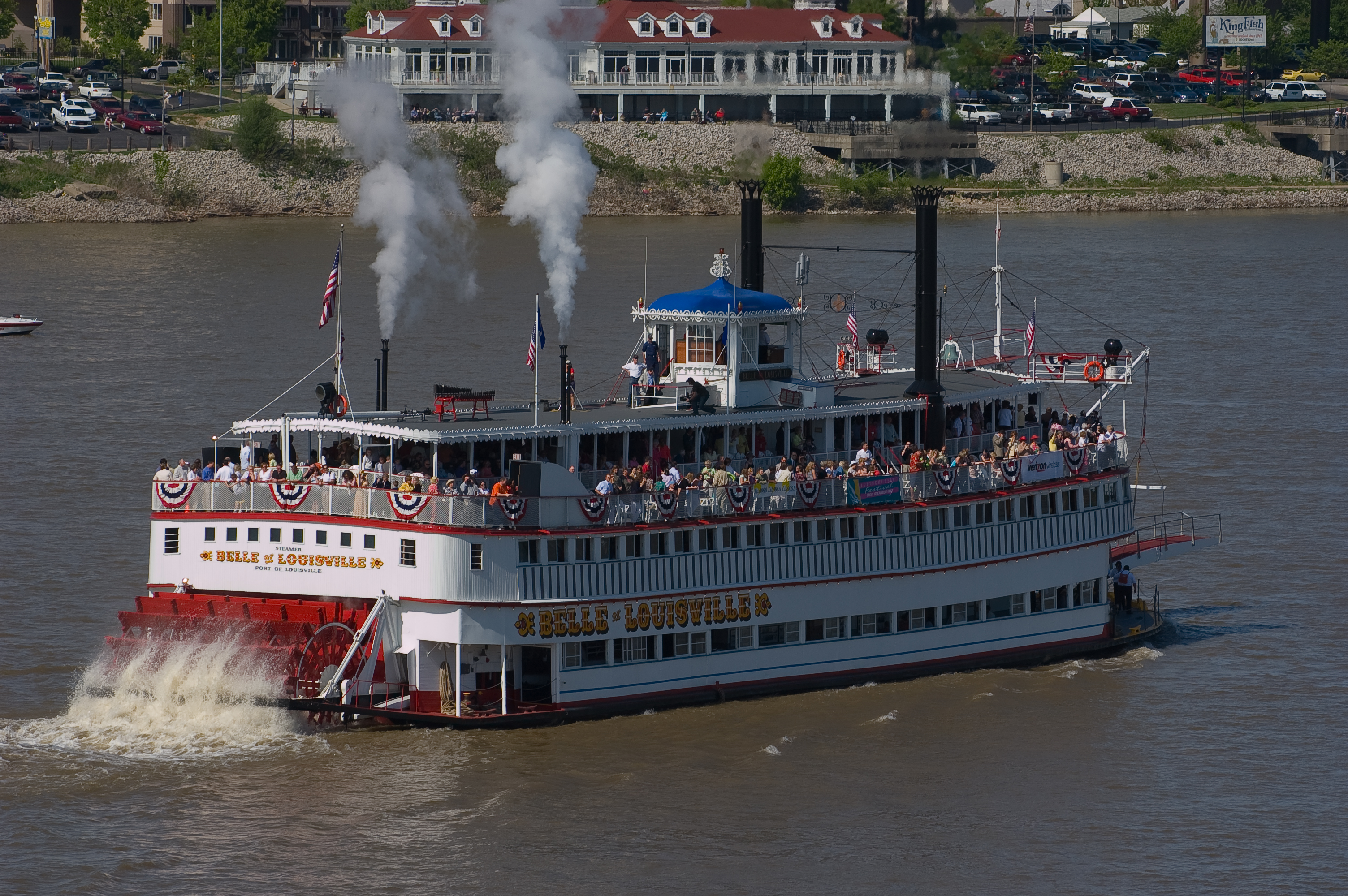 The Belle of Louisville at the start of The Great Steamboat race on the Ohio river in Louisville Kentucky.